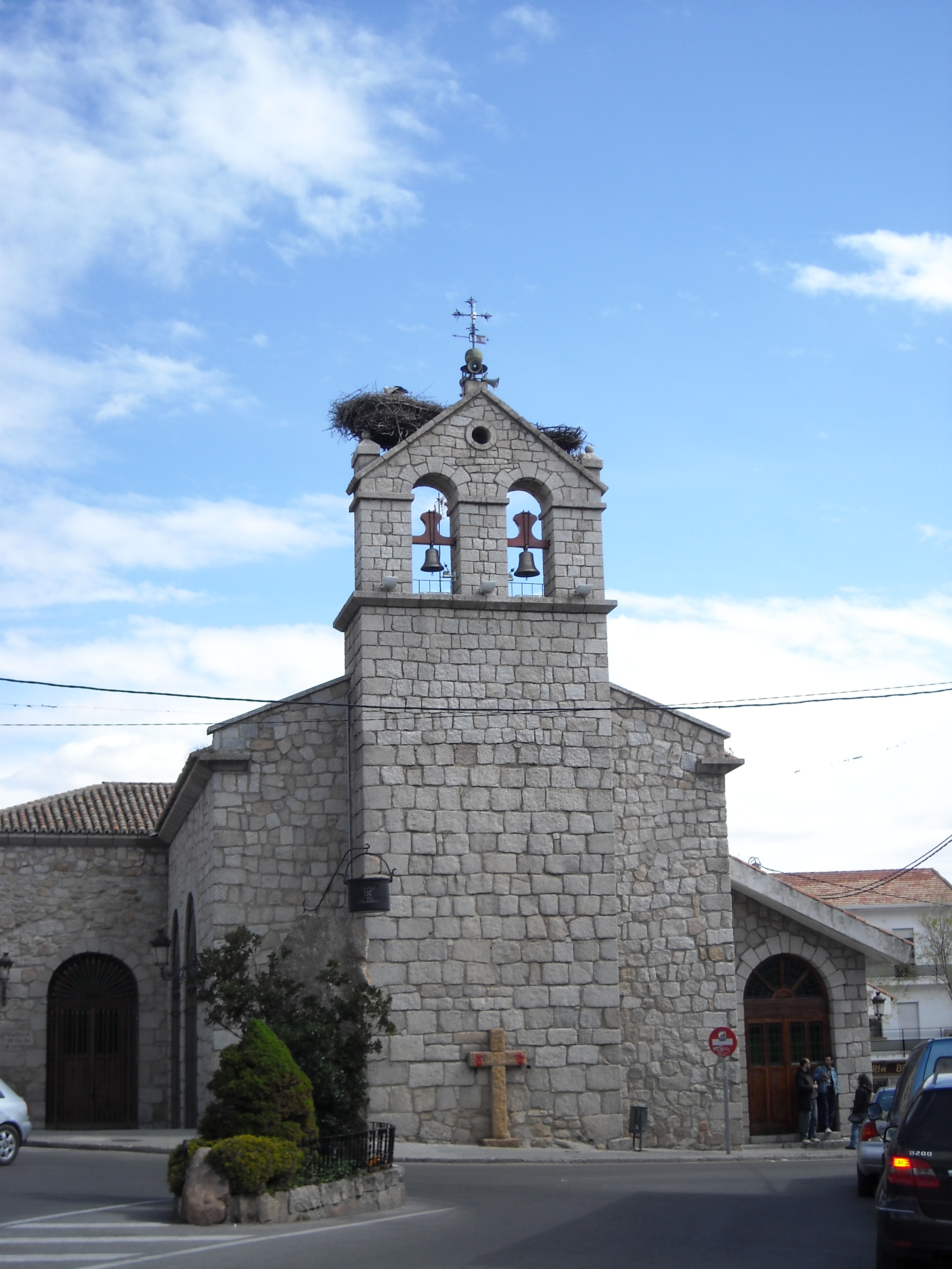 Former church of Our Lady of the Rosary, Hoyo de Manzanares, Madrid, Spain, now a cultural centre